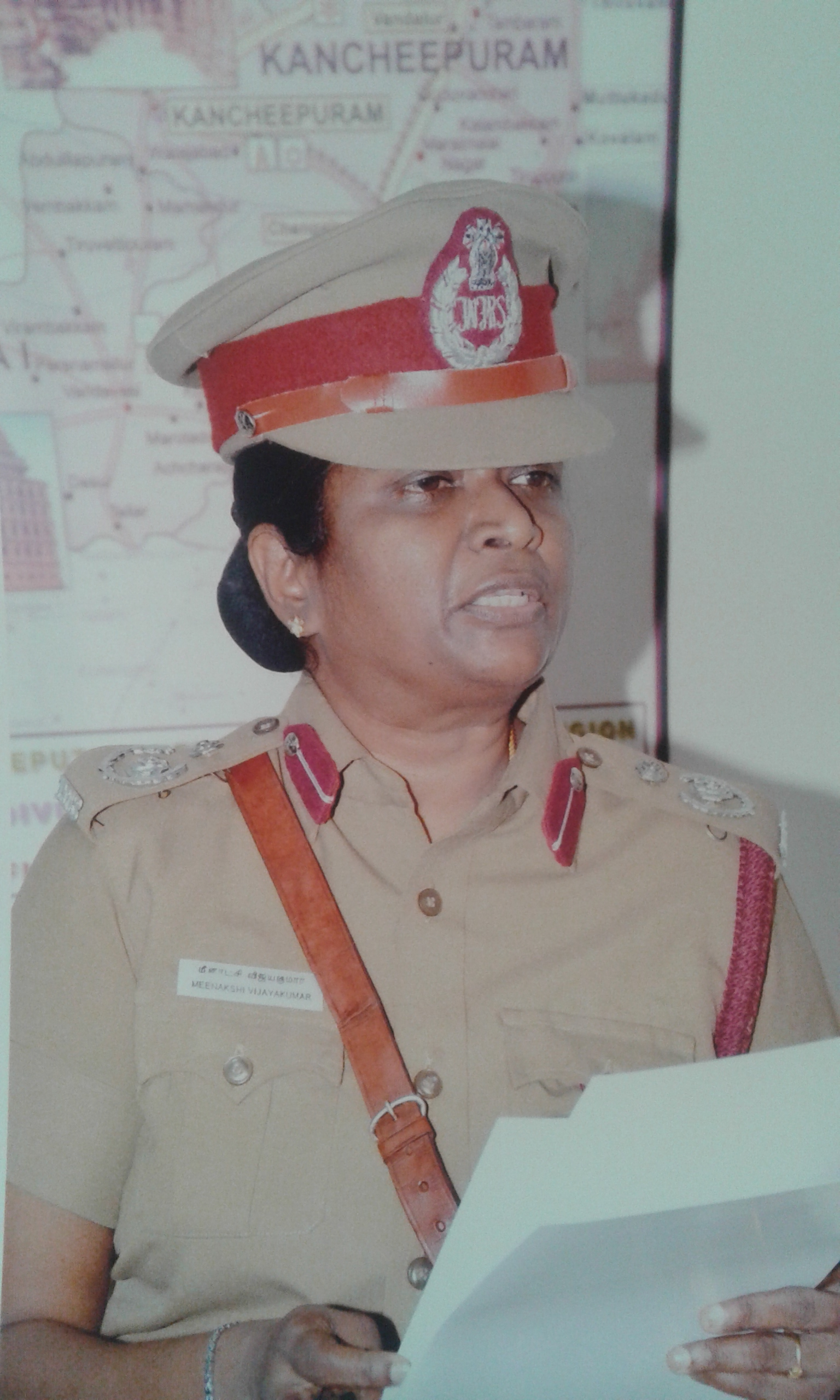 Meenakshi vijayakumar at work